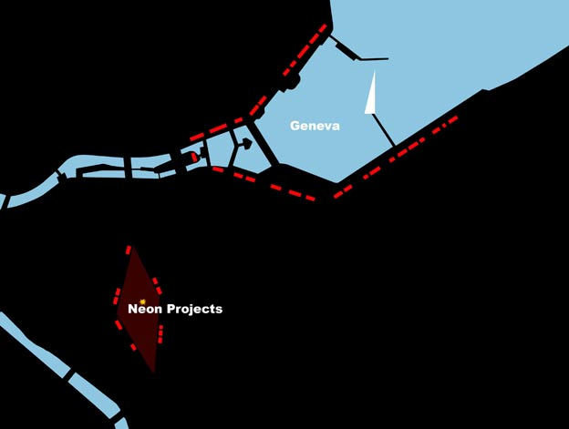 Drawing Map by Simon Lamunière for the Neon Project, Geneva Switzerland.